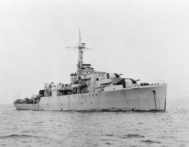 Photograph of British Black Swan class sloop HMS Alacrity.